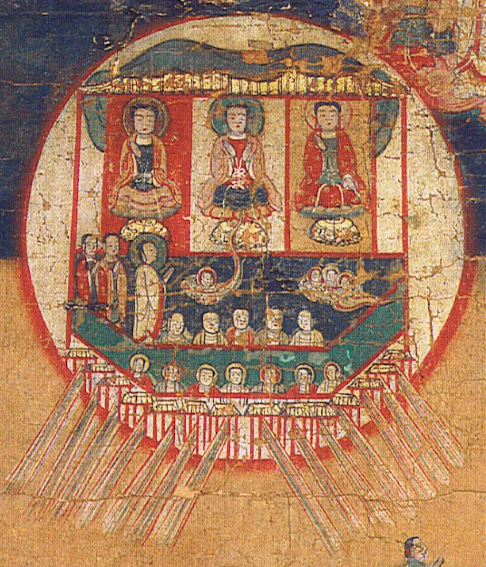 The Moon in the Liberation Light (Yoshida and Furukawa 2015, Plate 5). Ship of Moon: three deities (Light Maiden, Jesus, Primal Man), five soul-gathering angels, seven pilots, fourteen gates, divine agents, Mani as observer in circle; four divine agents above. Source: Gulácsi, Zsuzsanna. Mani’s Pictures: The Didactic Images of the Manichaeans from Sasanian Mesopotamia to Uygur Central Asia and Tang-Ming China, page 453.